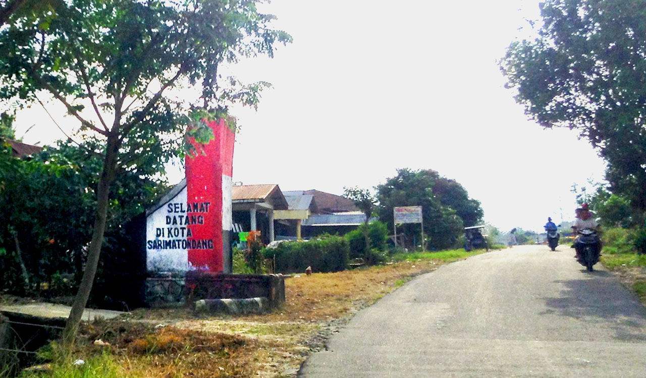 Welcome Gate To Sarimatondang, Sidamanik, Simalungun